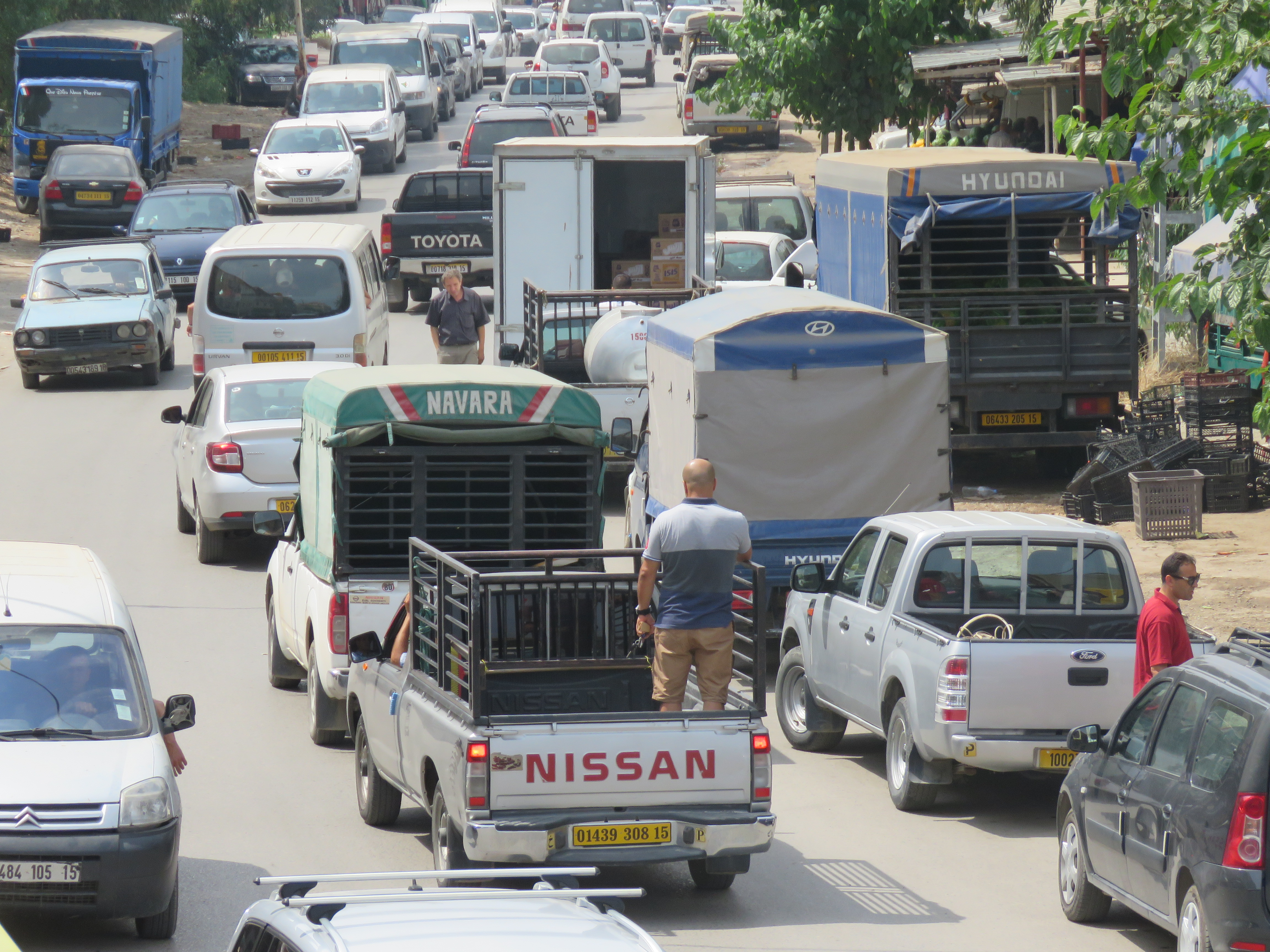 This is an image with the theme "Africa on the Move or Transport" from: Algeria